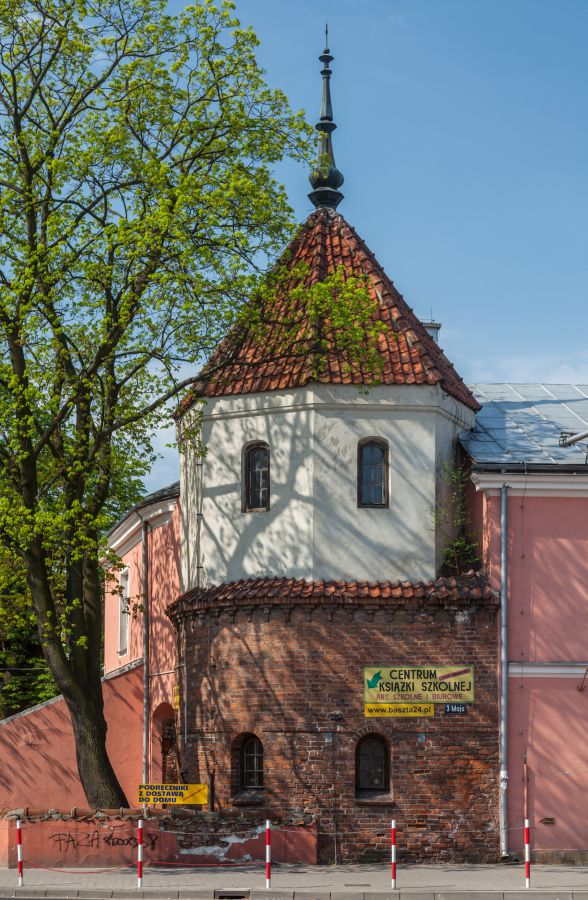 Pułtusk, Poland, watch tower at the hospital.